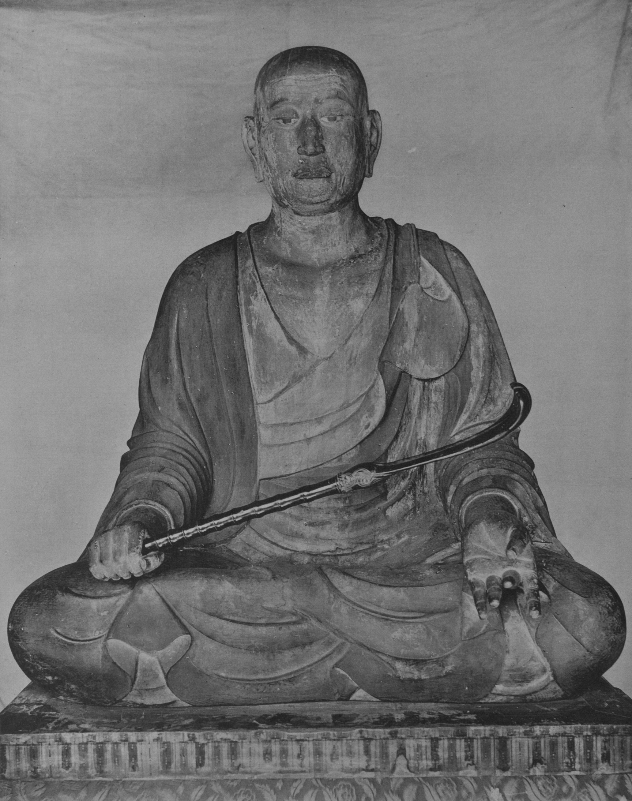 Kaisan-dō, Tōdai-ji, Nara, Japan